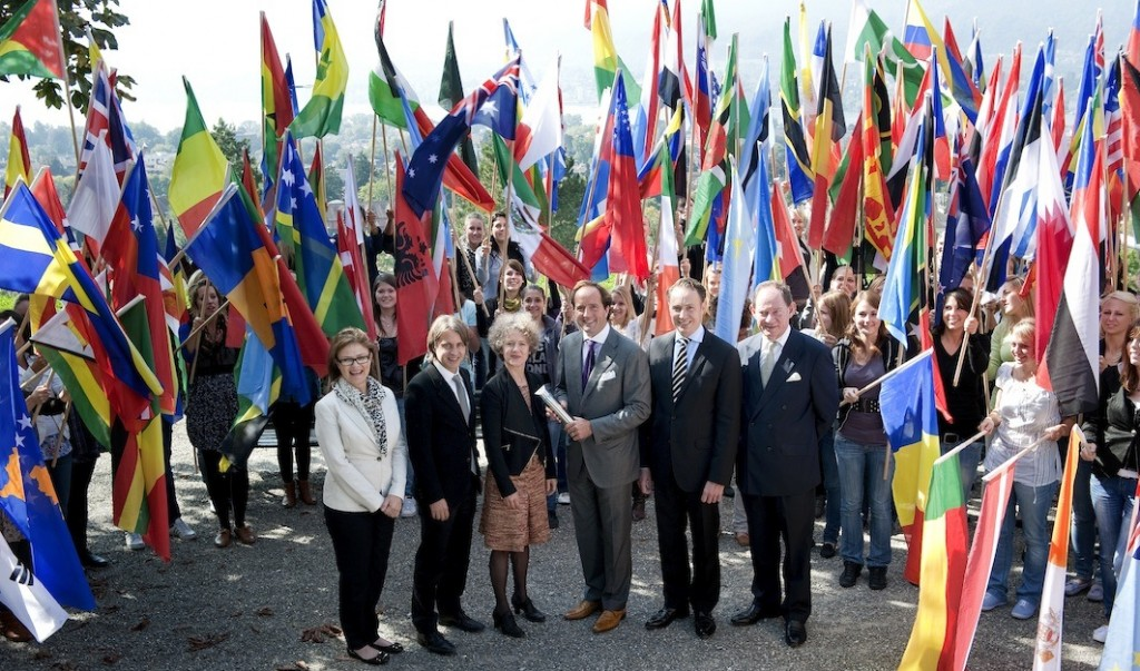 Zurich 2011 One Young World